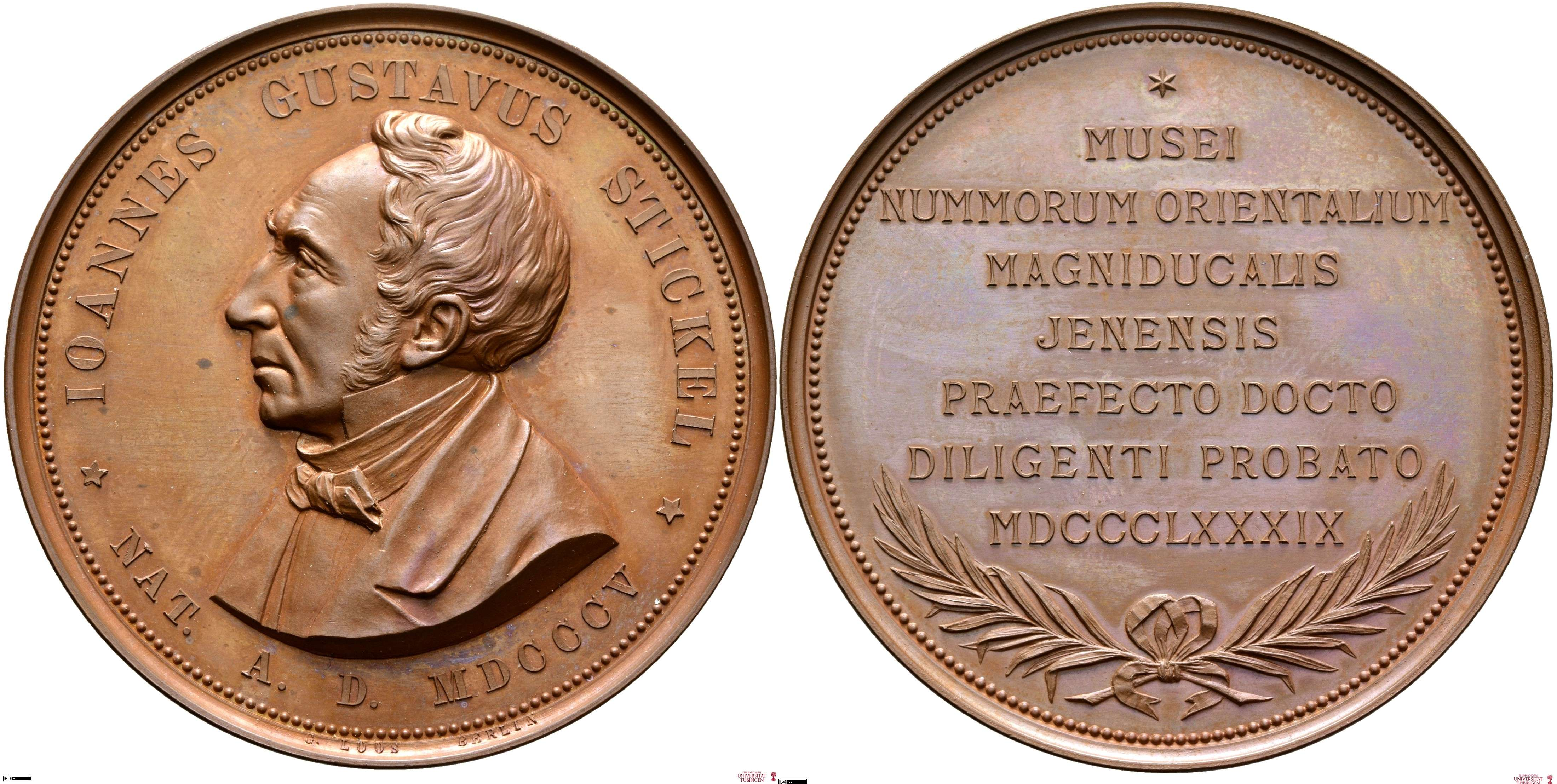 The front side depicts a bust of Stickel surrounded by his name and date of birth in Latinised form. At the bottom of the medal on the rim the place of coinage is named as "G LOOS Berlin". The back side names his profession as head of the oriental numismatic collection in Jena and year of coinage. Above a star, below crossed branches have been placed.